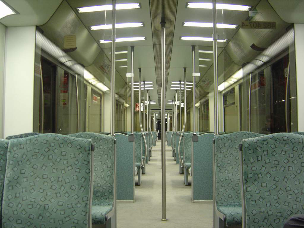 Interior of the Berlin S-Bahn train type 481